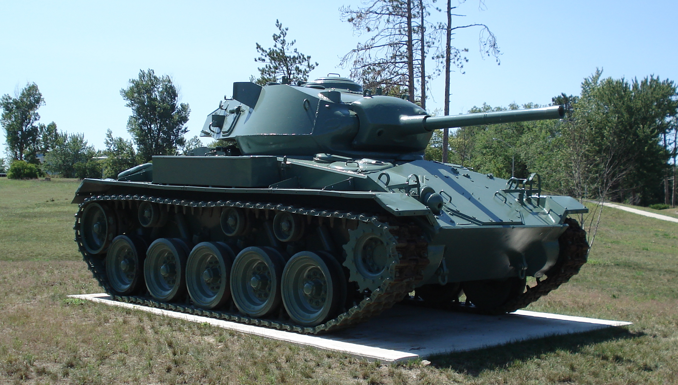 M24 Chaffee light tank. This example is displayed on the grounds of CFB Borden (Base Borden Military Museum). Photo taken on August 12, 2006. Source: Photo by me, User:Balcer.